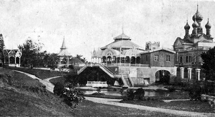 Lake of Parque Lezama, Buenos Aires. Nowadays, an amphitheatre stands there.